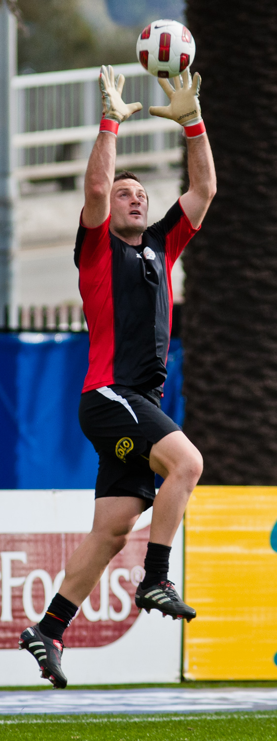 Eugene Galeković warming up for Adelaide United before a Round 2 A-League match against the Central Coast Mariners.